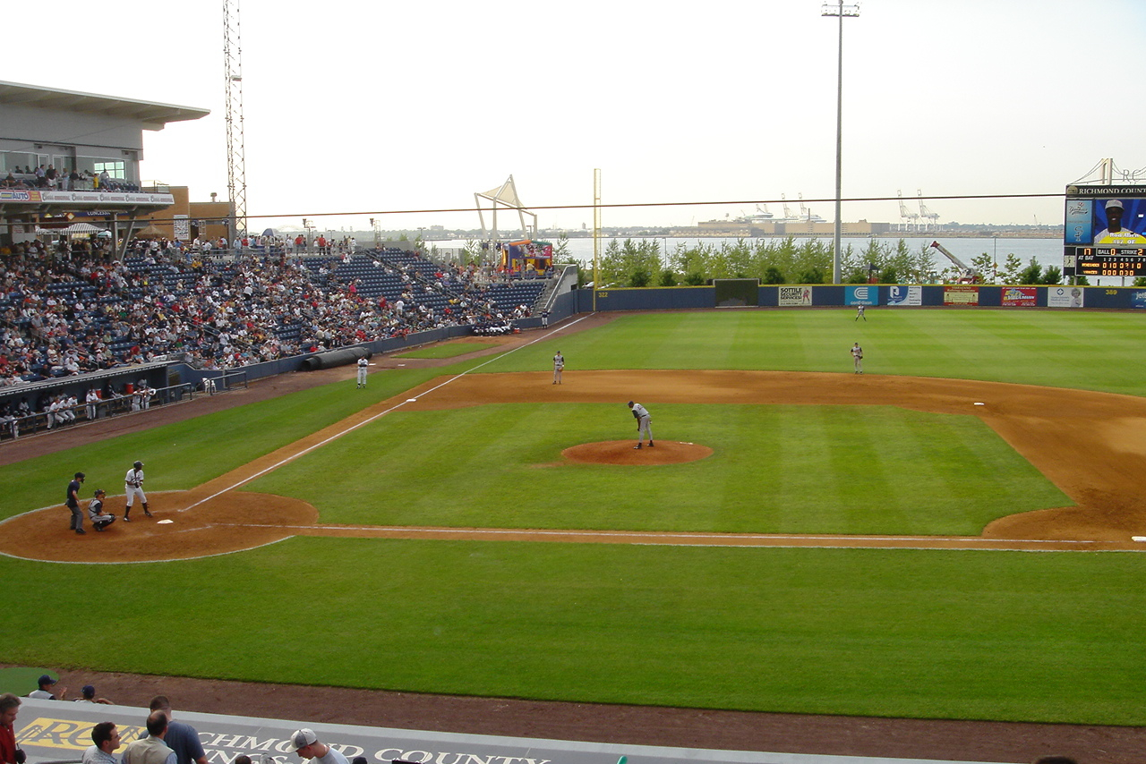 Richmond County Bank Ballpark, home of the Staten Island Yankees, on July 25, 2004.